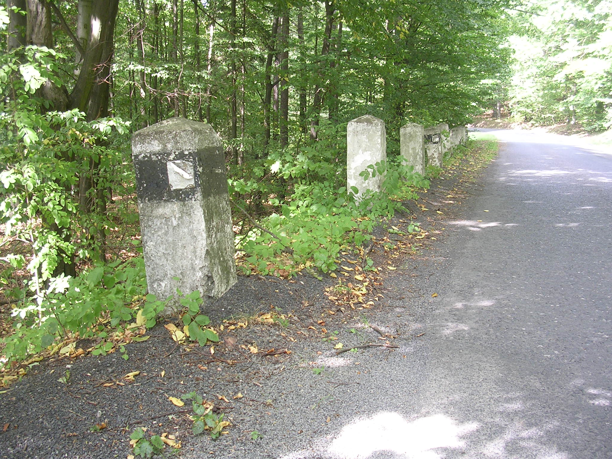 Roztoky, Rakovník District, Central Bohemian Region, the Czech Republic. The road between Karlova Ves and Karlov, roadside stones.